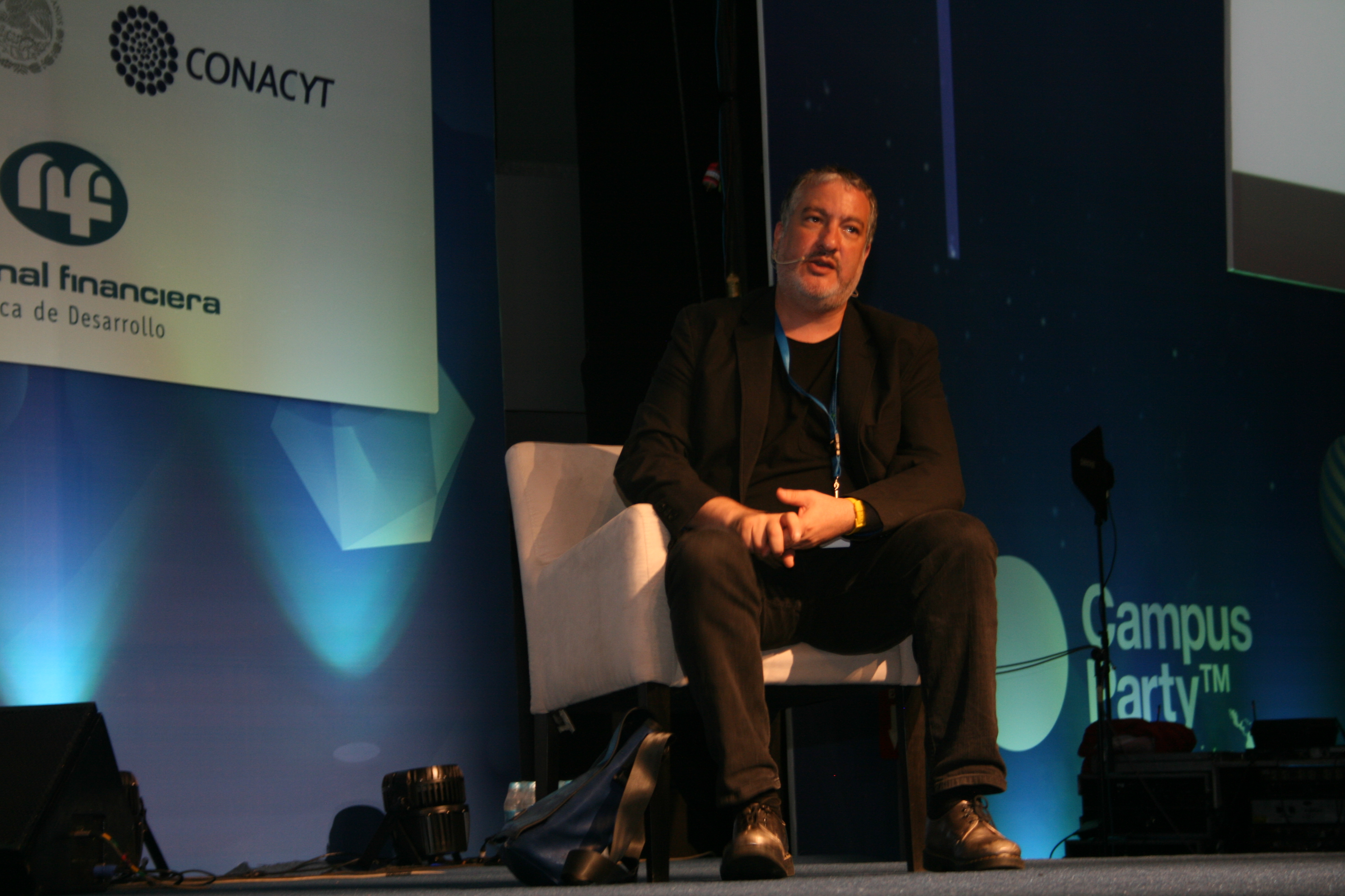 Spencer Tunick